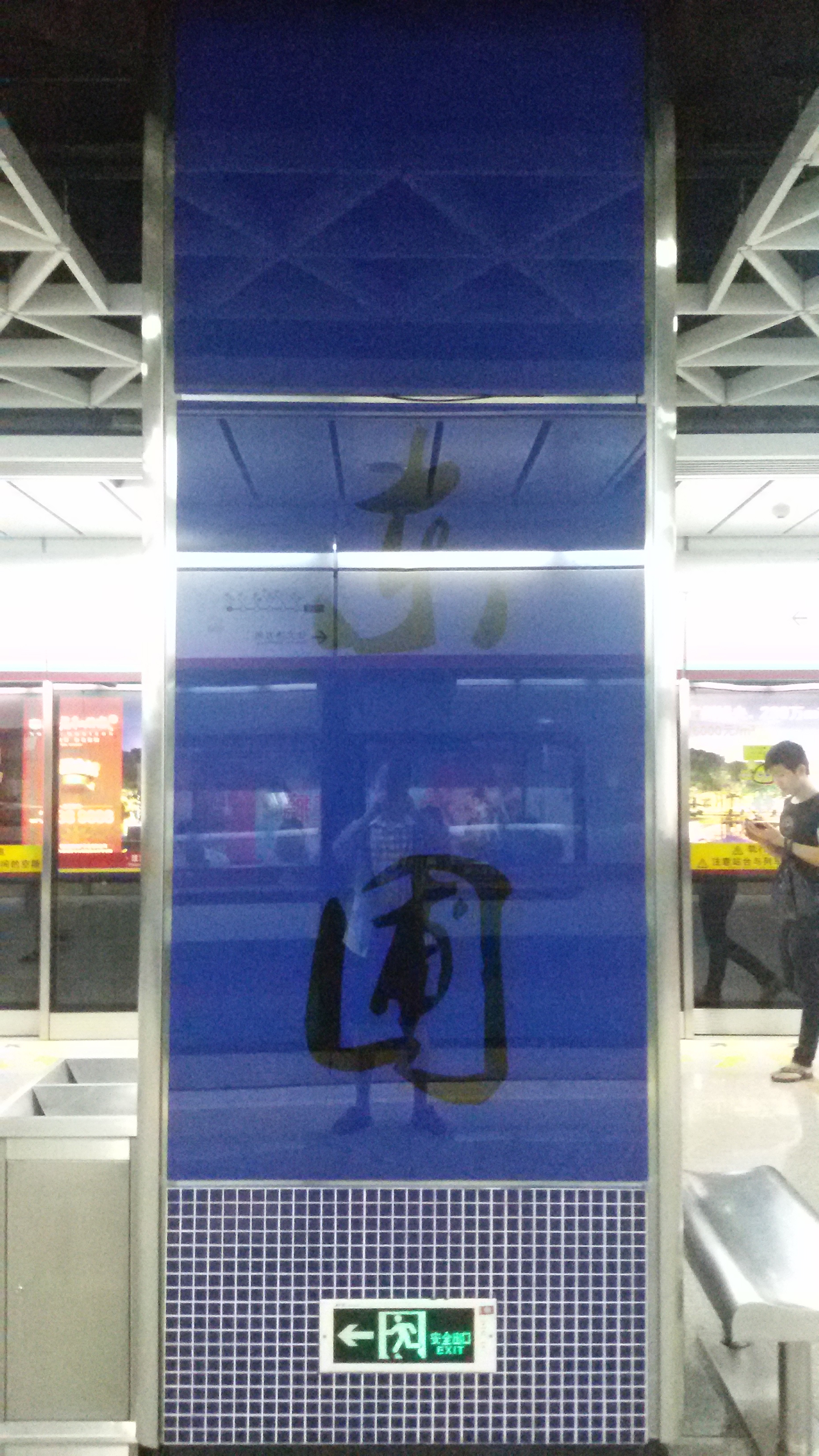 WORD on PILLAR for Dongpu Station in Guangzhou Metro.